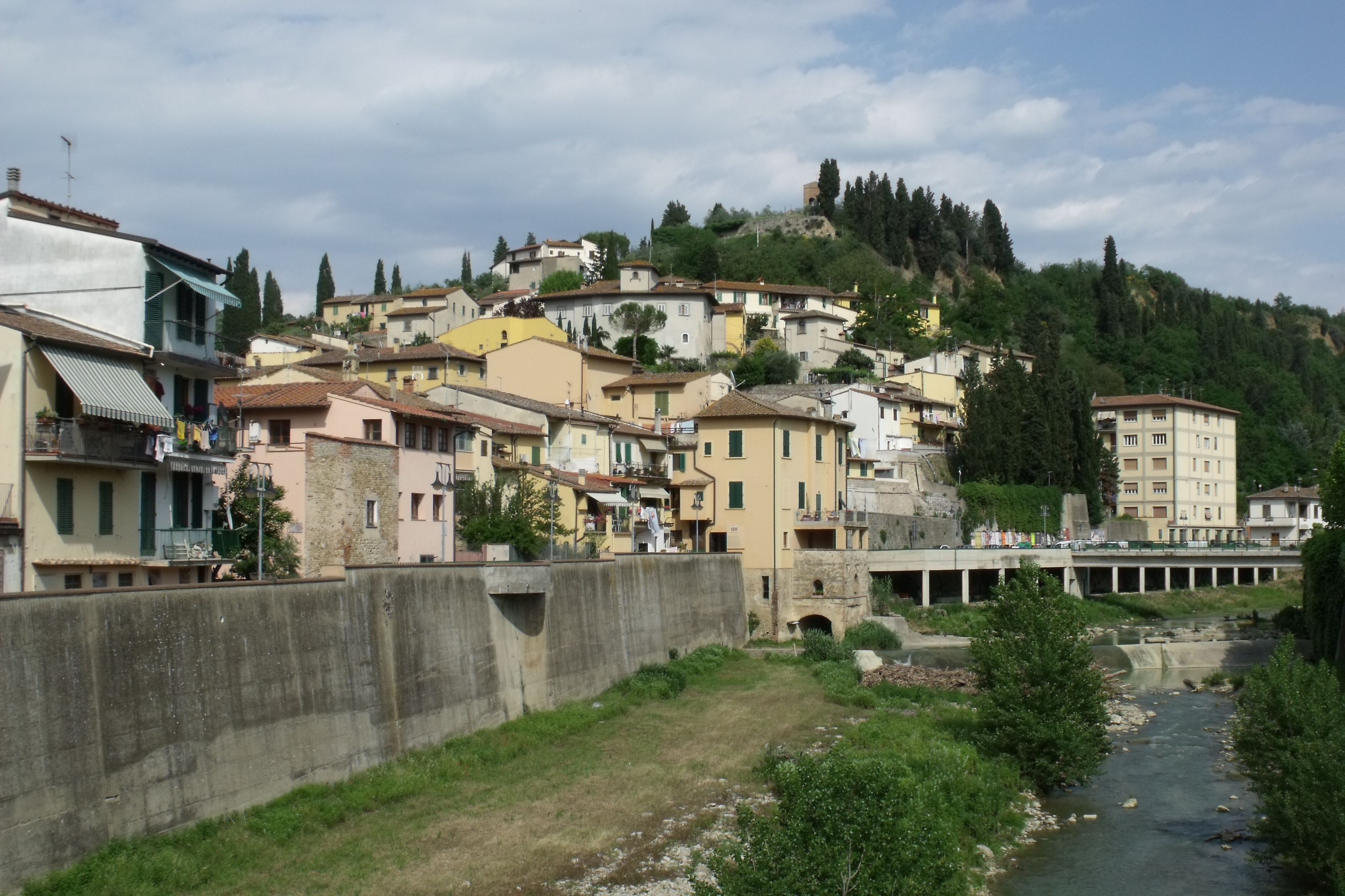 Pesa river and Montelupo Fiorentino in the Province of Florence, Tuscany, Italy